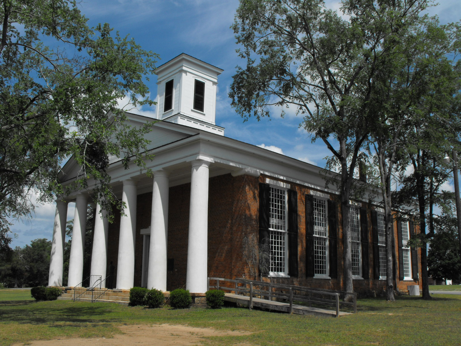 English